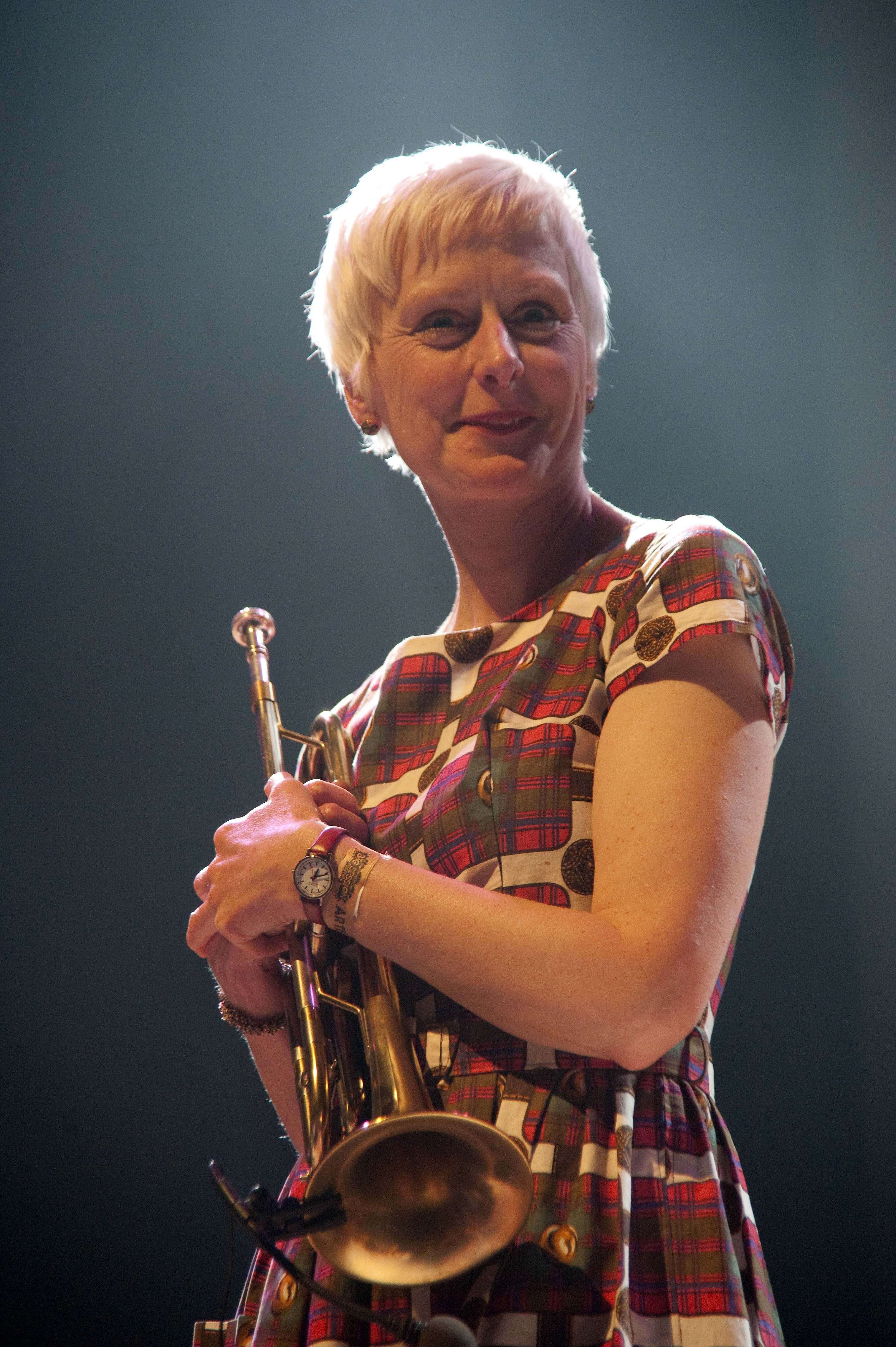 Musicians